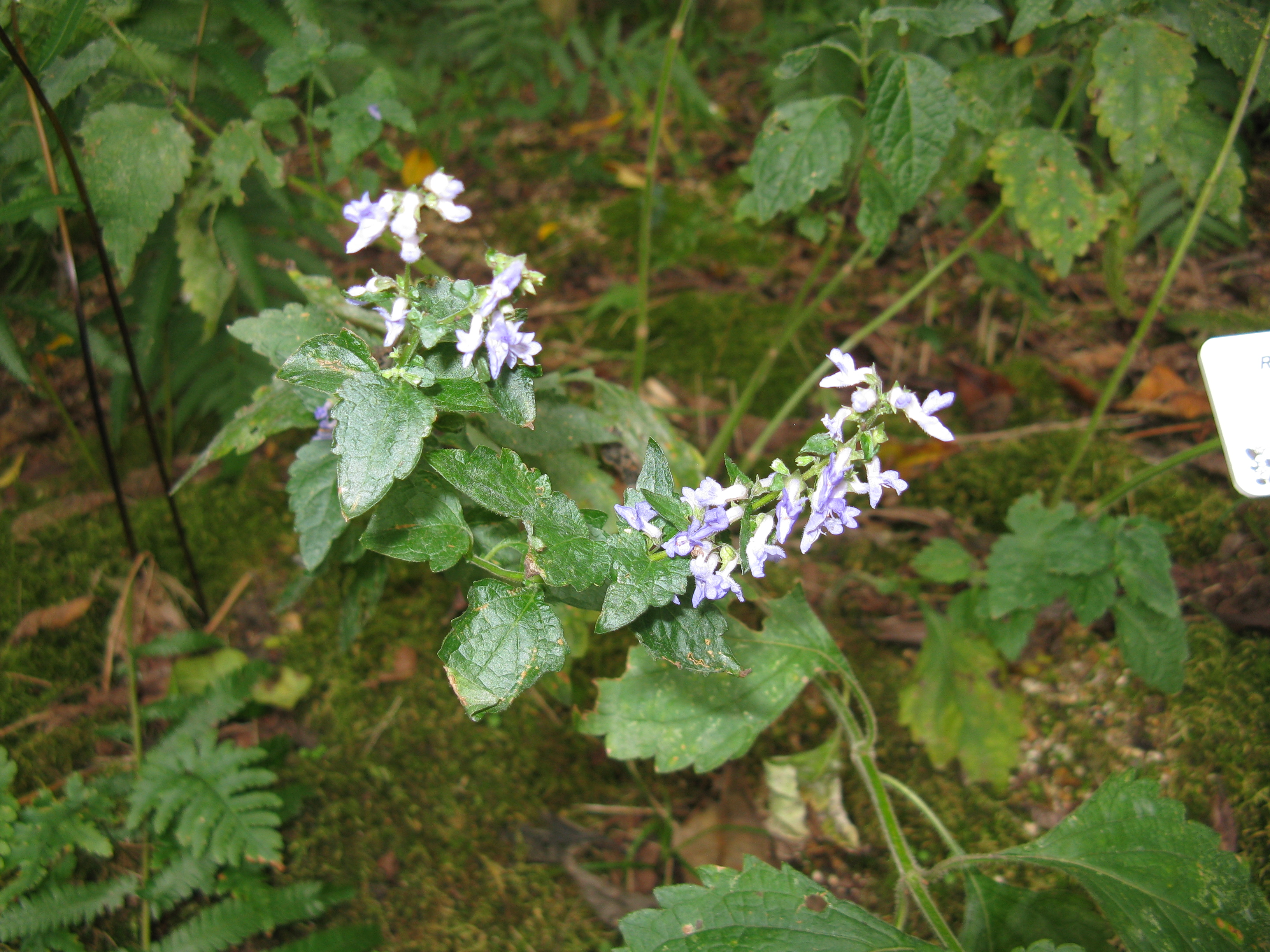 Isodon inflexus